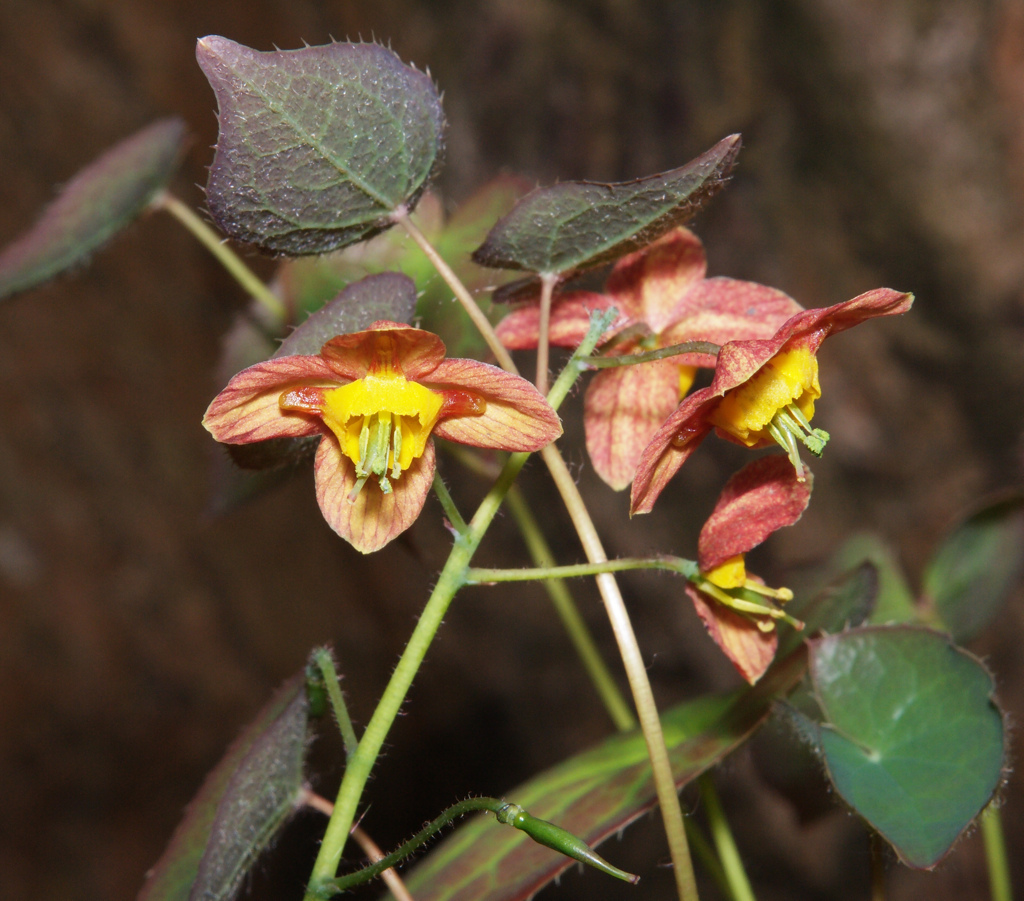 Epimedium versicolor „Sulphureum“